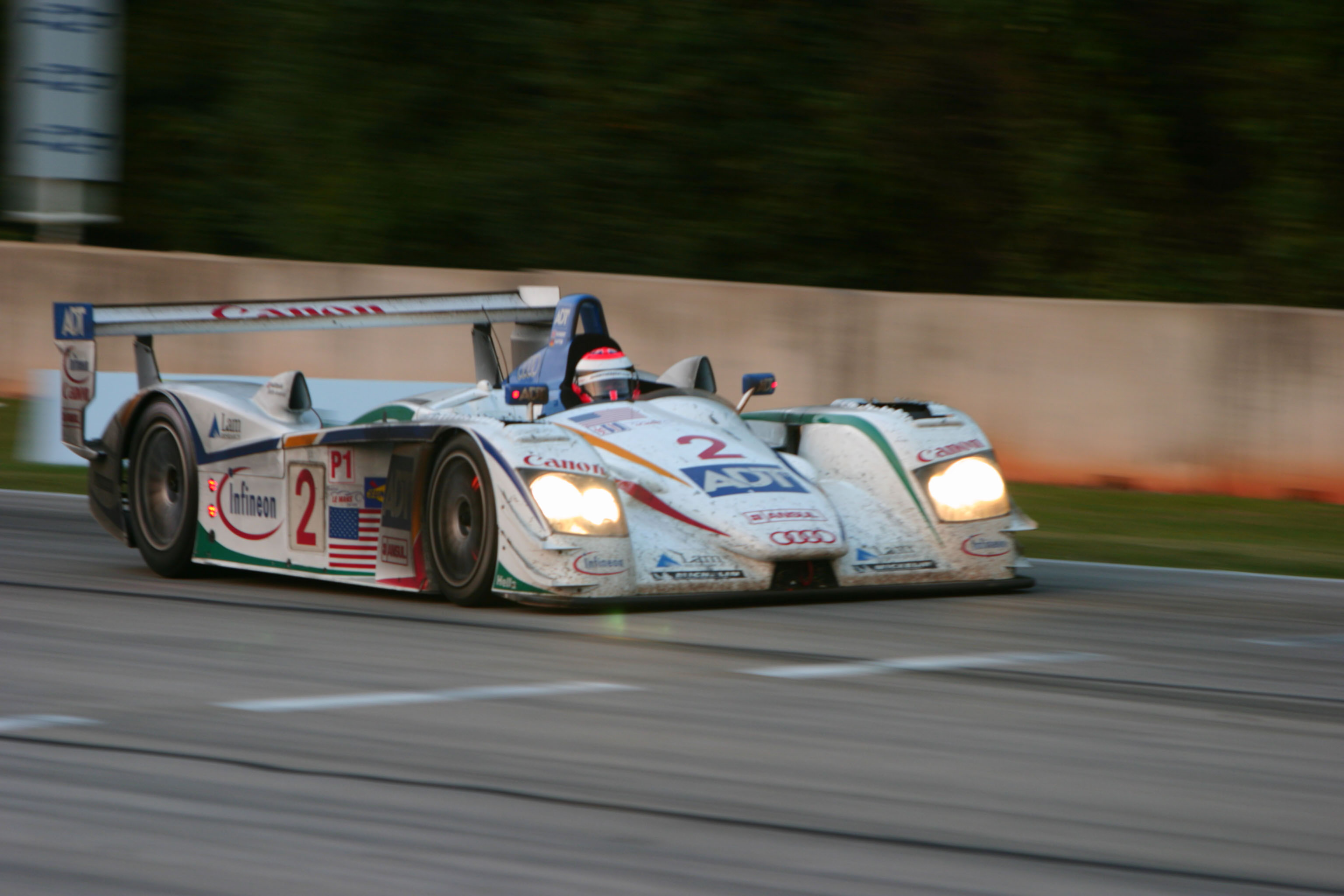 №2 Audi R10 - LMP1 ADT Champion Racing Road Atlanta Chevy Presents Petit Le Mans September 25, 2004 Round 8 American Le Mans Series Pierre Kaffer/Switzerland Johnny Herbert/Brentwood, Essex, UK (391 laps) - 2nd place